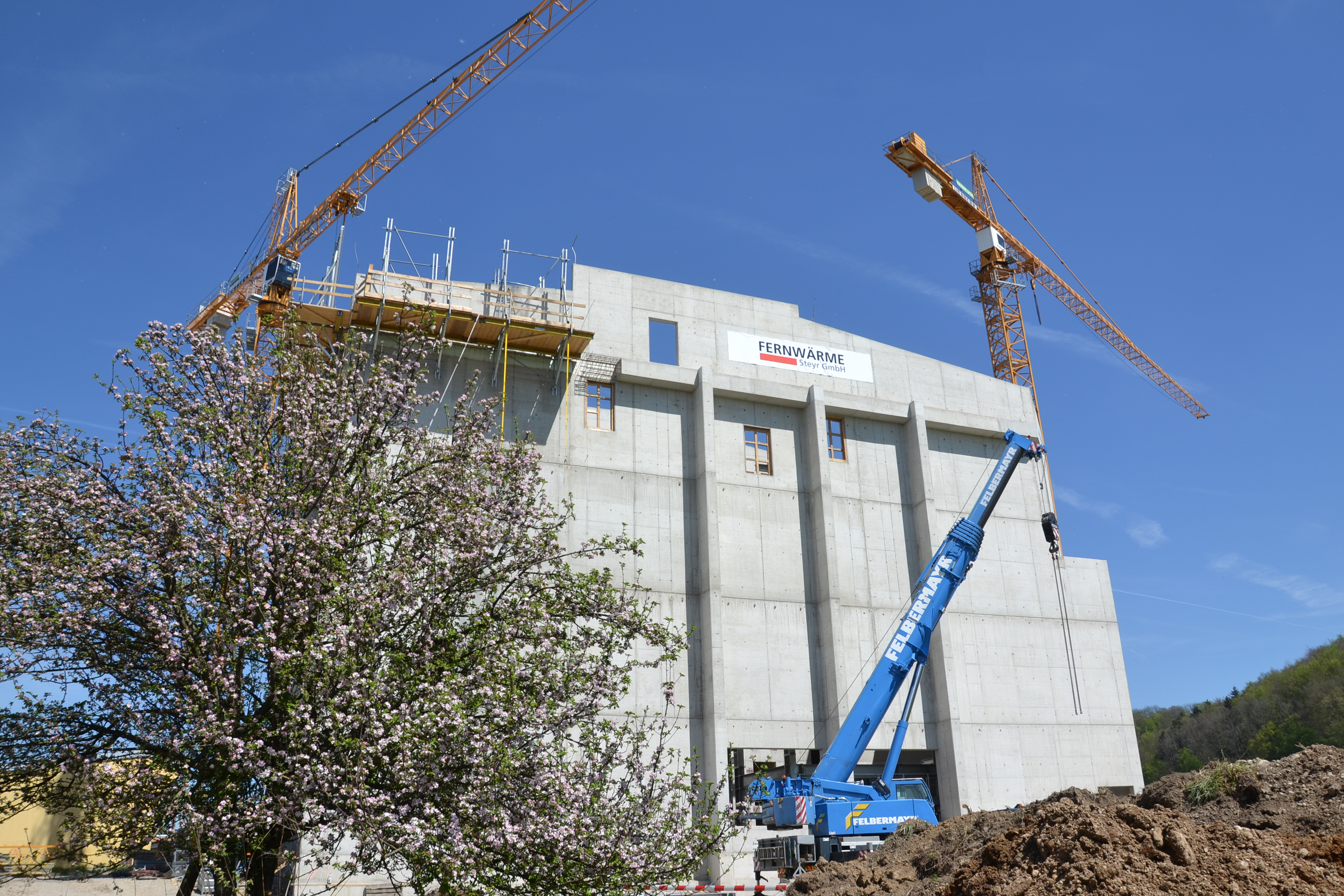 Biomasseheizkraftwerk Steyr